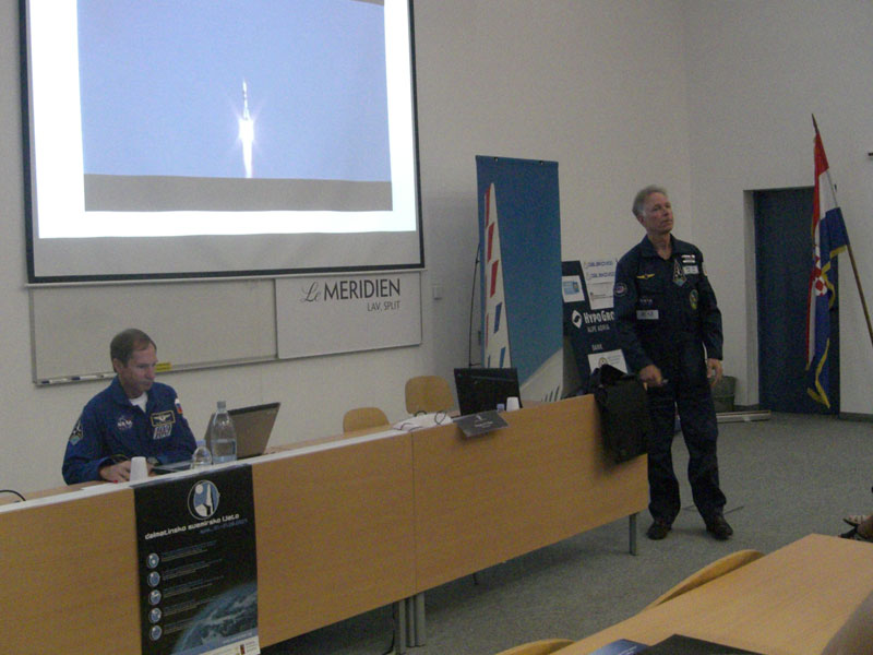 Valery Tokarev and Gregory Olsen at Dalmatian Space Summer ( in Split, Croatia